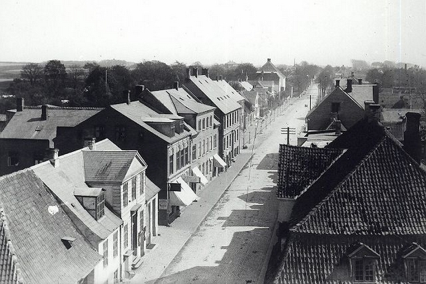 Lyngby Hovedgade in c. 1900 in Kongens Lyngby. The picture is taken from the corner of Jernbanevej, looking east.